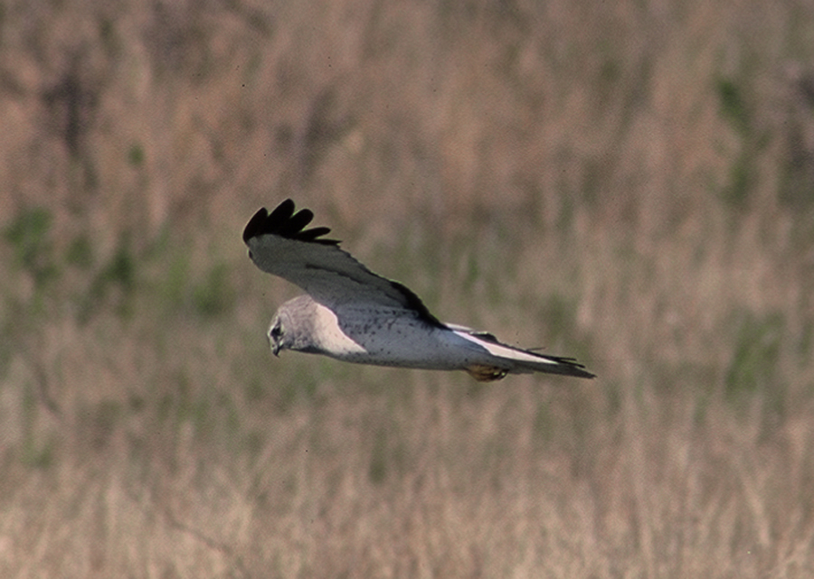 Northern Harrier — Circus hudsonius. At the Katy Prairie Conservancy preserve, located west of Houston, Texas.